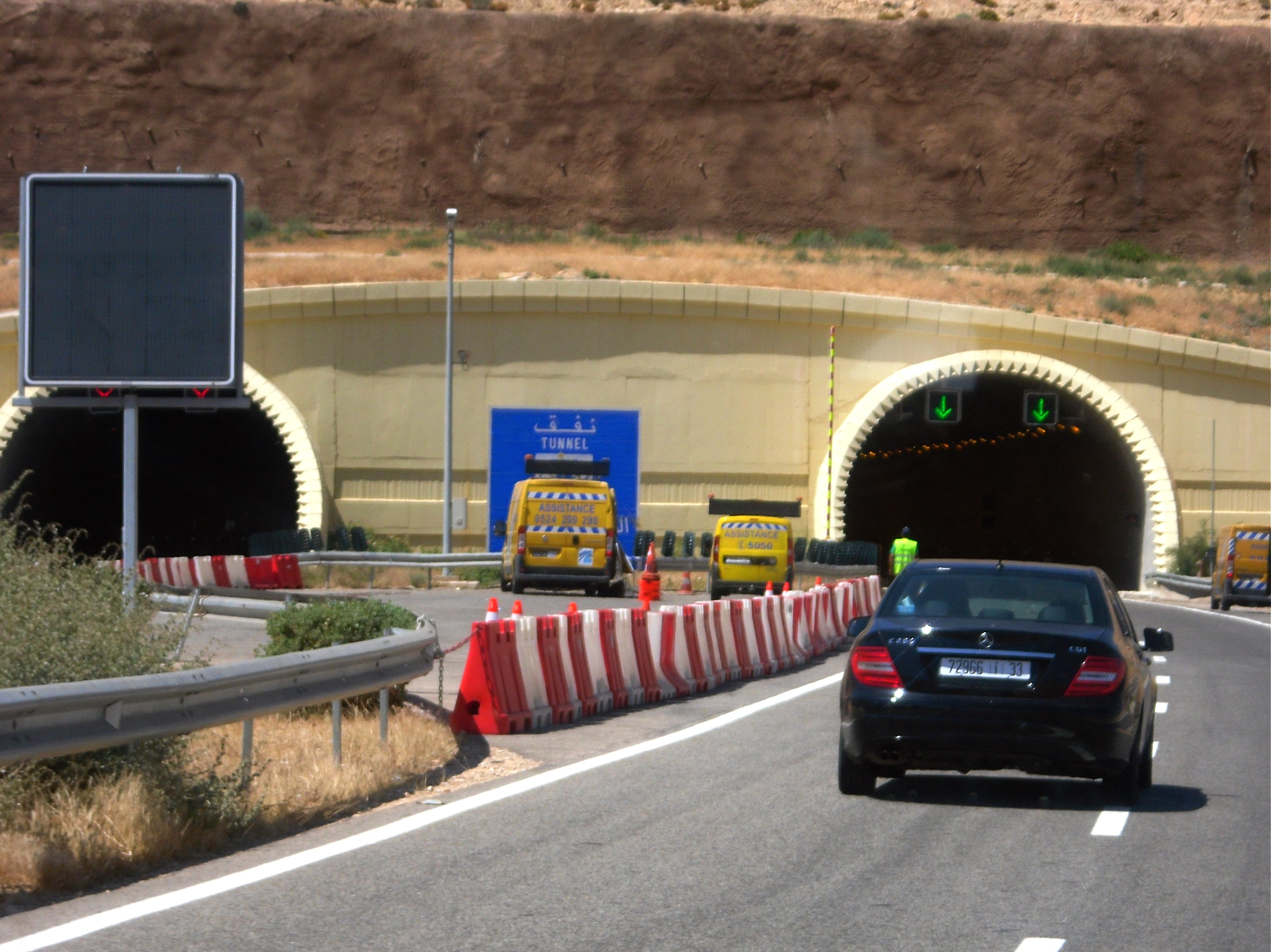 Road tunnel on A7 highway between Agadir and Marrakech, Morocco